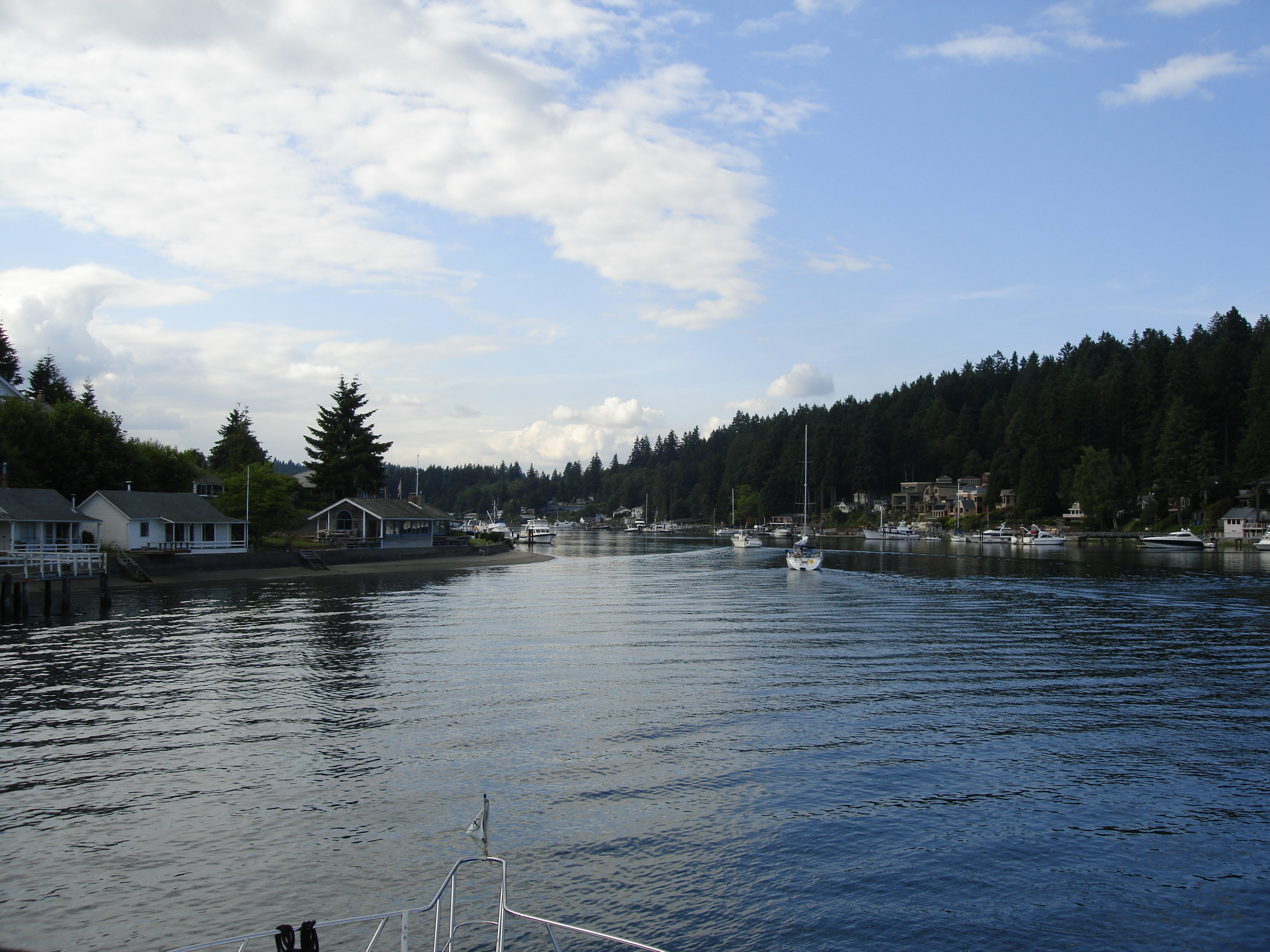 This is a picture of the entrance to Gig Harbor. I was in town for a business trip, and a business associate and her husband took us to the Tides restaurant for dinner via their boat.